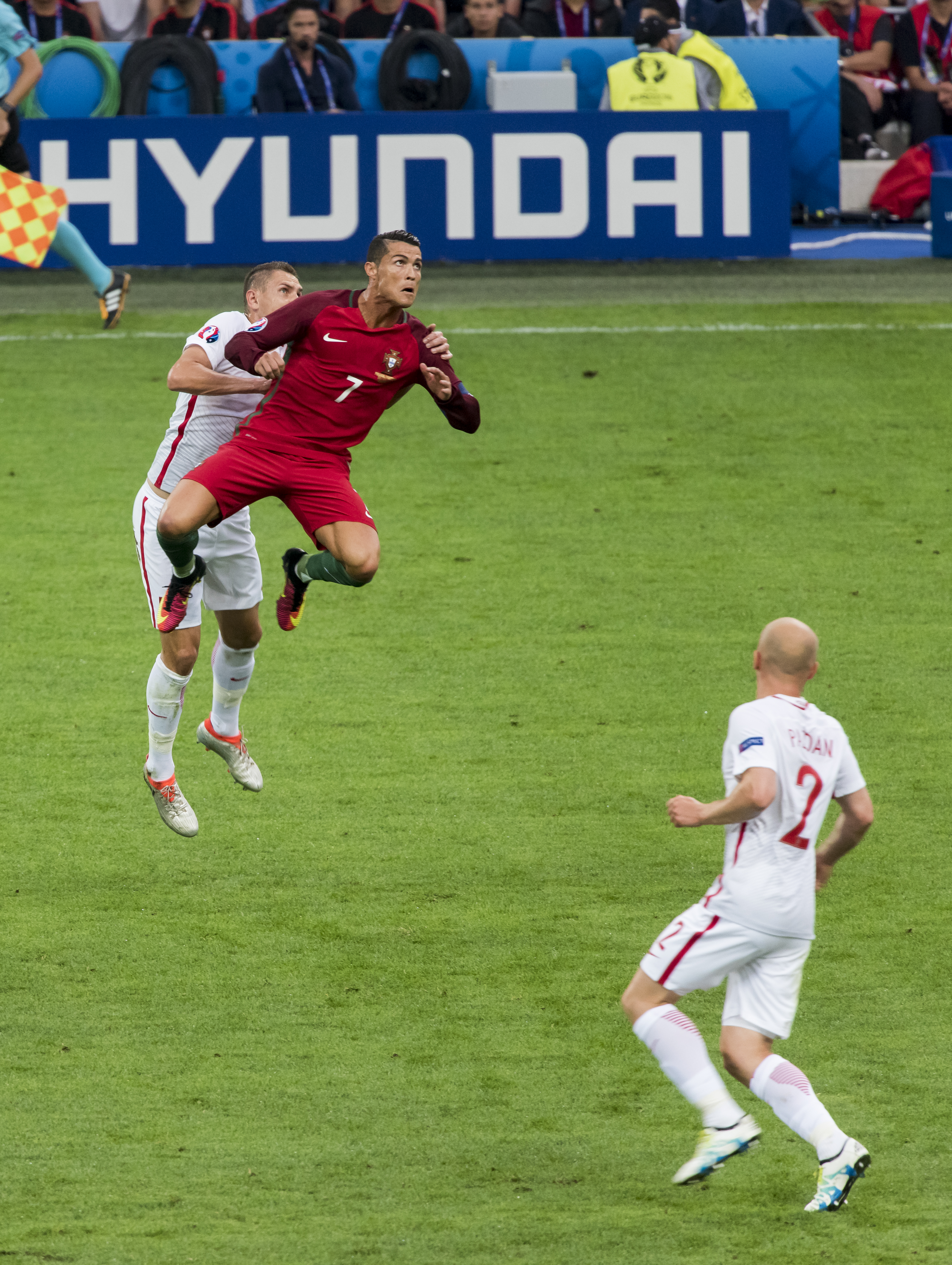 Cristiano Ronaldo playing for Portugal in the quarterfinal game against Poland at the UEFA Euro 2016